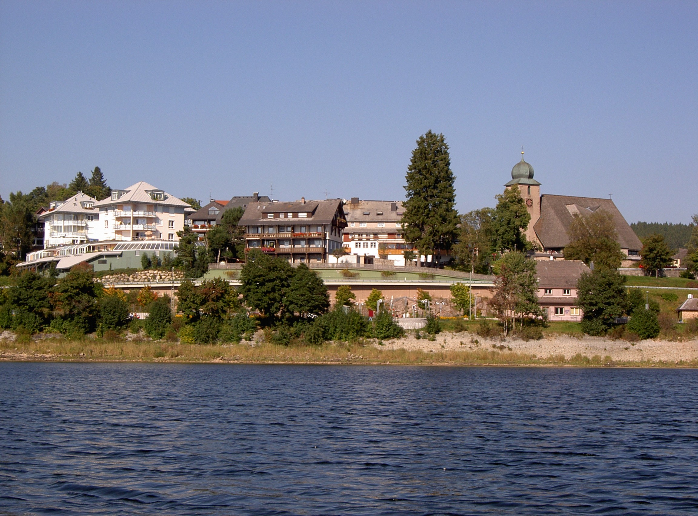 Schluchsee seen from the lake